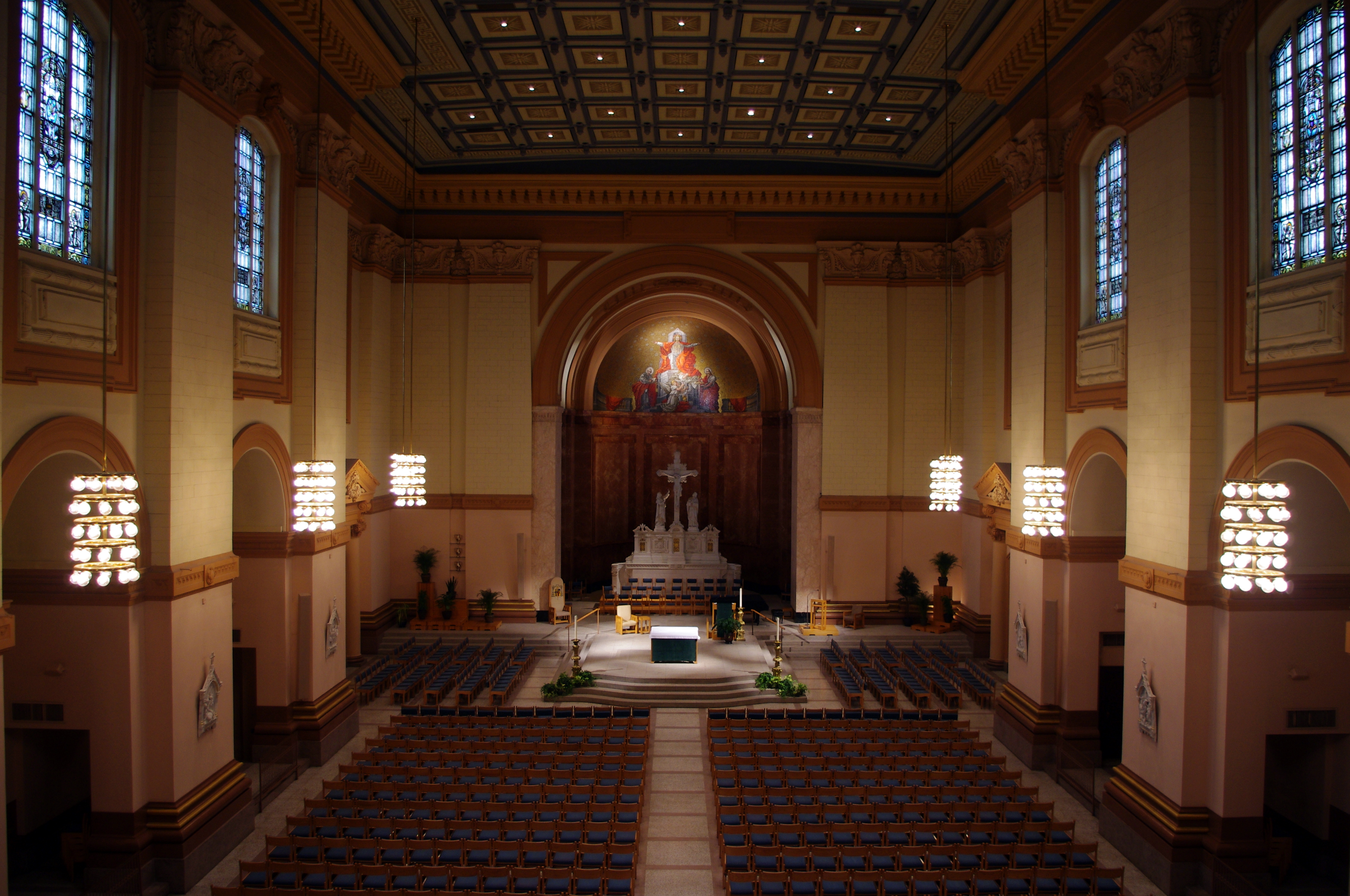 Saints Peter & Paul Cathedral (Indianapolis, Indiana), interior, nave view from the organ loft